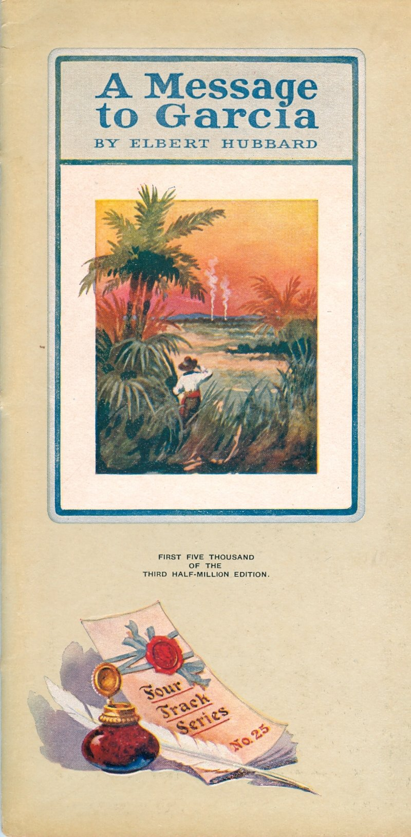 This particular image is the cover of the "First Five Thousand of the Third Half-Million Edition of No. 25 of the Four-Track Series published by the New York Central